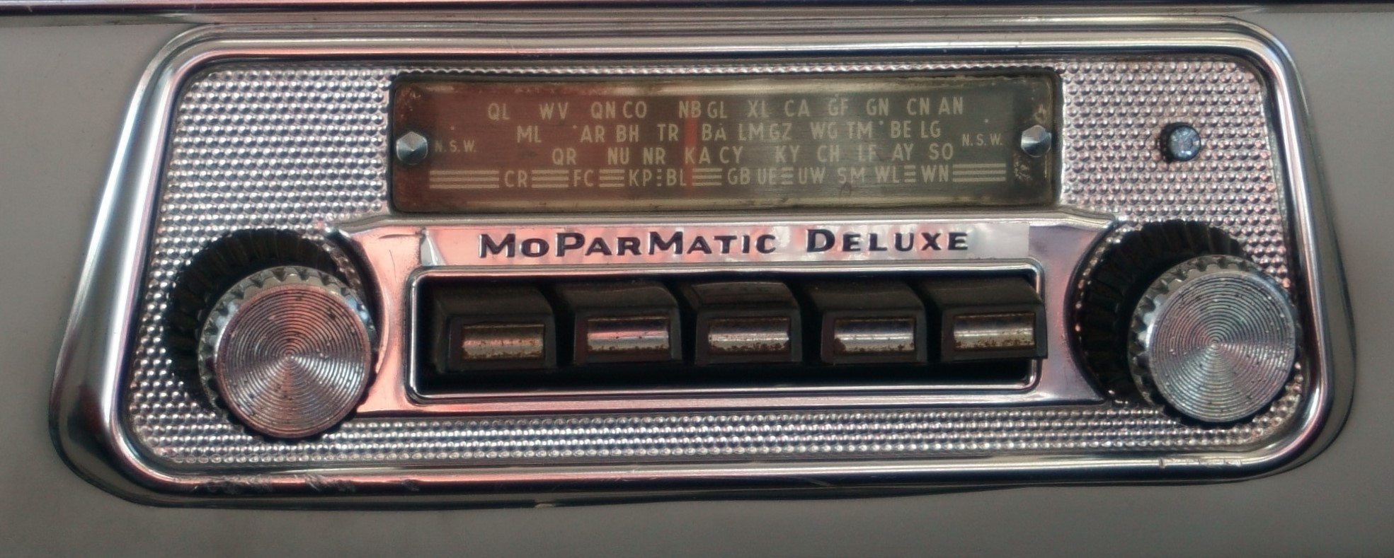 AM push-button-tuning car radio as originally fitted to Chrysler auto. The Perspex dialplate has callsigns of New South Wales broadcasters (without the prefix "2") printed to aid in station identification. Plates for other States were available.